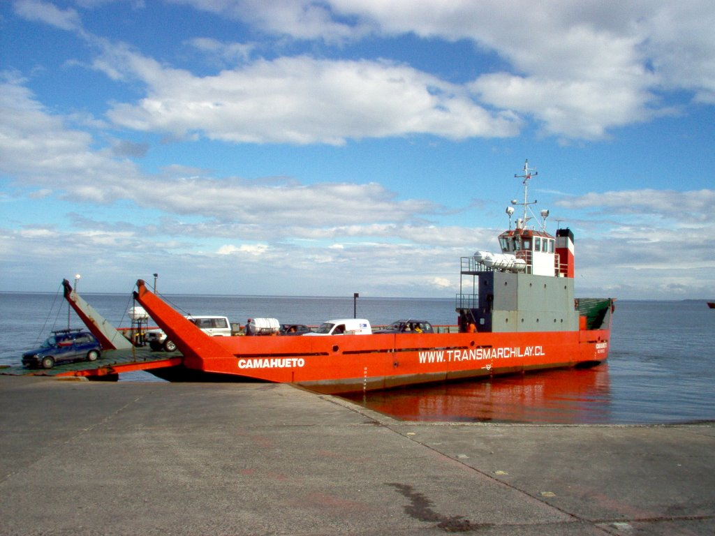 Barcazas en Chile Type: Passenger / Ro-Ro Cargo Ship IMO number: 8837851 Callsign: CB4191